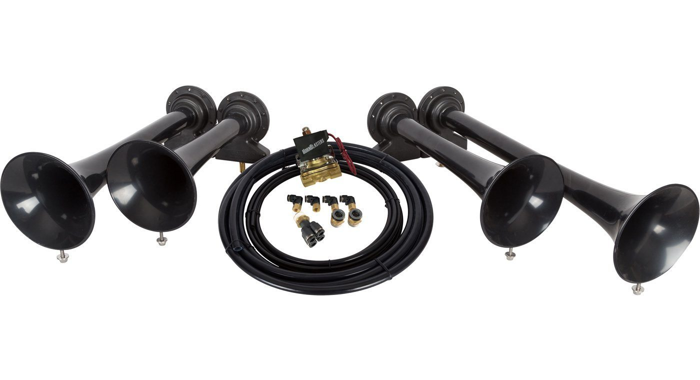 The Shocker XL Train Horns are constructed from the most durable automotive materials available including heavy duty fiberglass reinforced ABS plastic, stainless steel, and brass. They are the loudest you can get without going with the real locomotive horns which would be the Nathan Airchimes. As well as being the most versatile horns due to each horn being individually mounted. If needed you could spread the horns out across the vehicle, for example, putting one in each wheel well. These horns are crafted to meet rigorous standards in the USA. The diaphragms are stainless steel and will never rust! Also, these horns are hand tuned to get that perfect note and tone to match the sound of a locomotive!